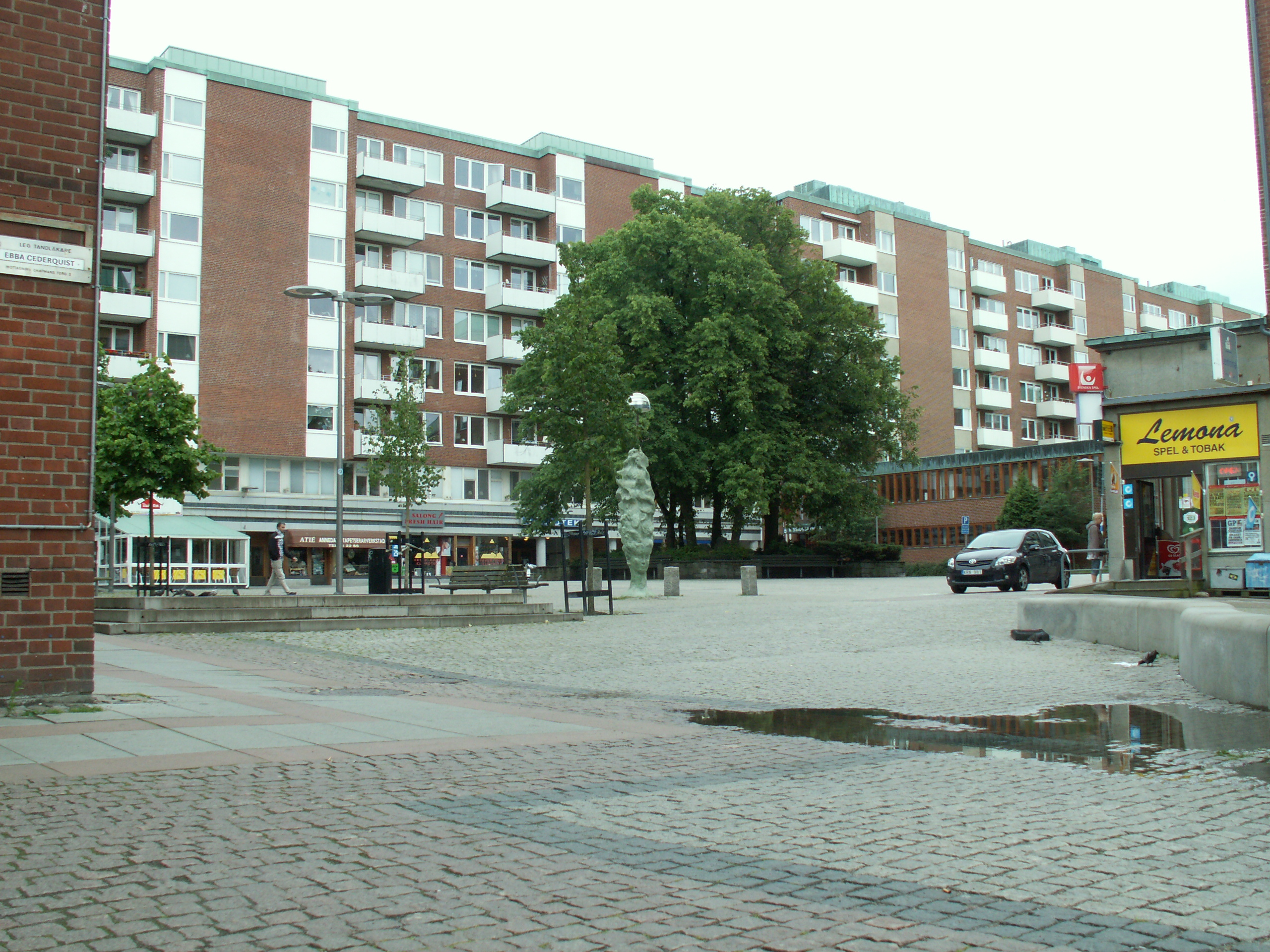 Chapmans torg, the central square in Majorna i western Göteborg.